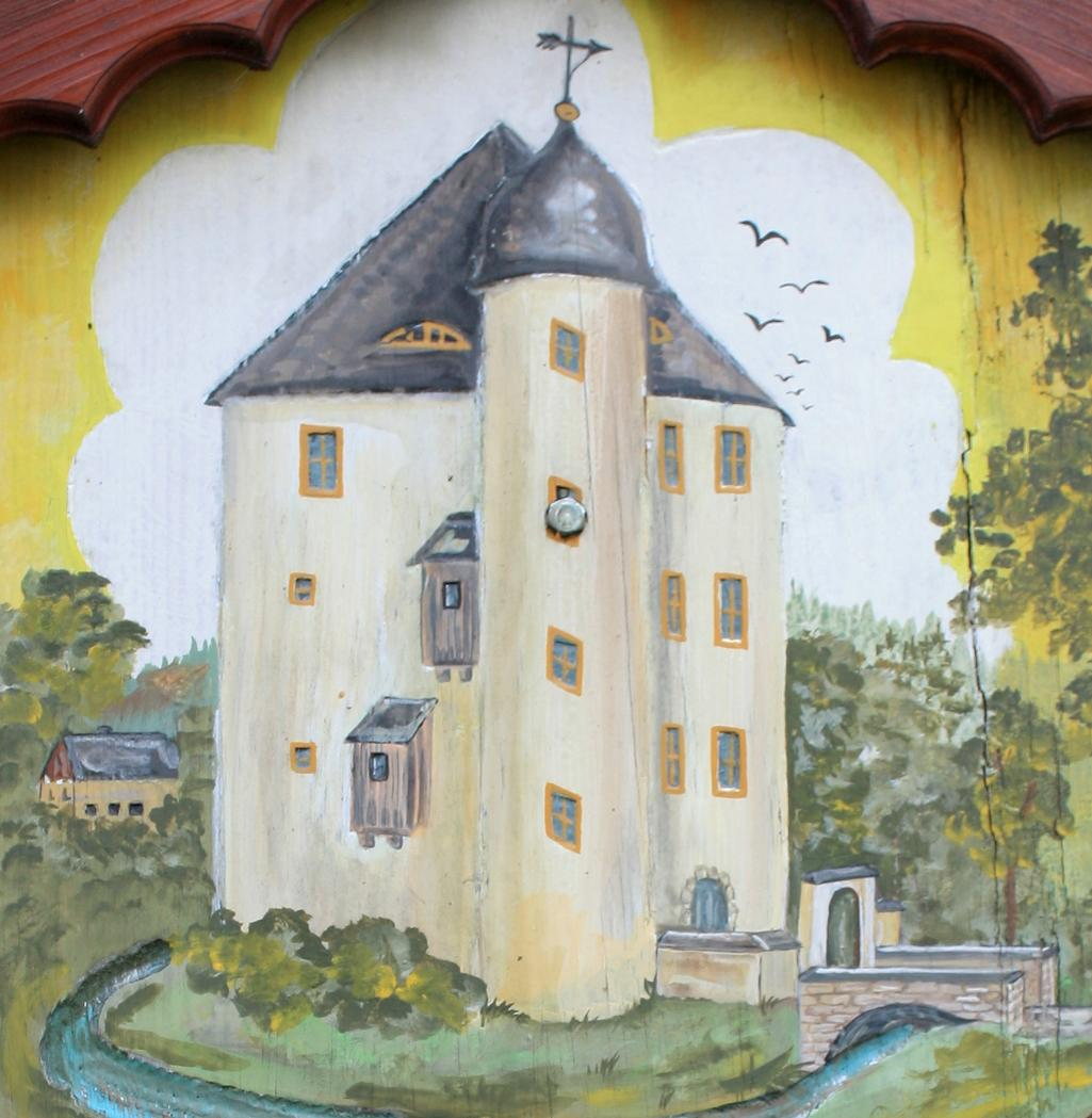 Information Board at Jagdhaus Breitenbrunn, Detail